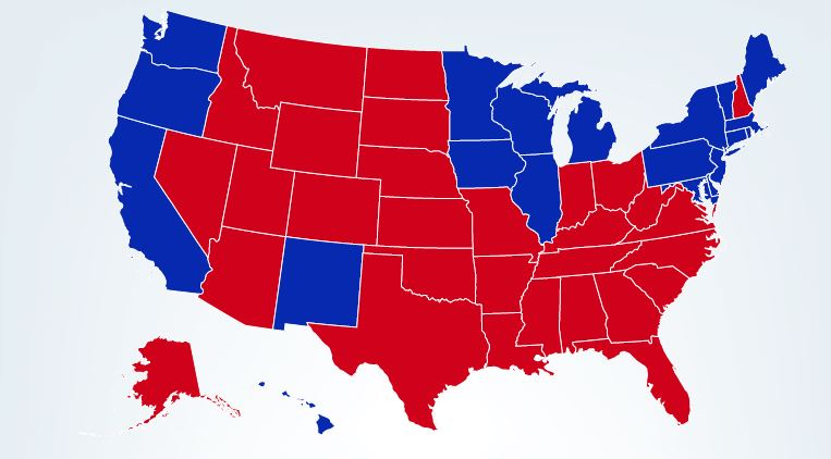 Map with the states of United states with the results of the presidential election in 2000